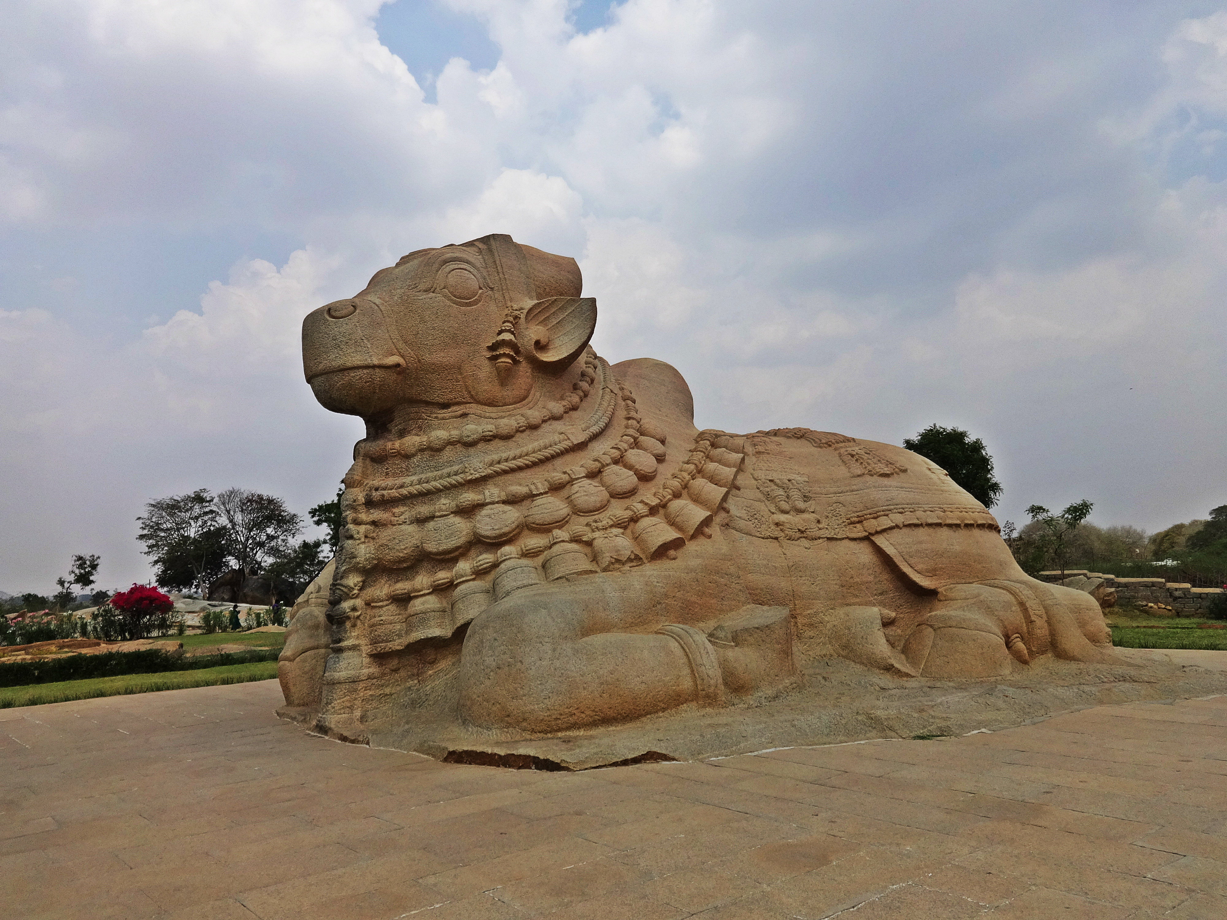 Lepakshi Nandi is a huge Nandi bull made of a single granite stone.